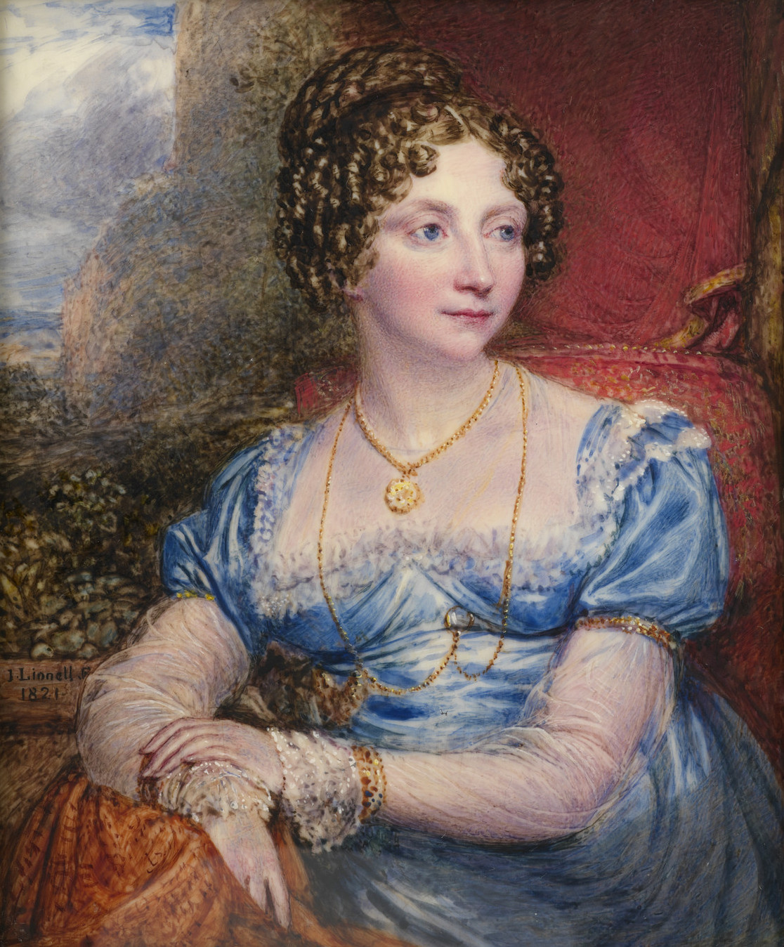 Princess Sophia, fifth daughter of King George III